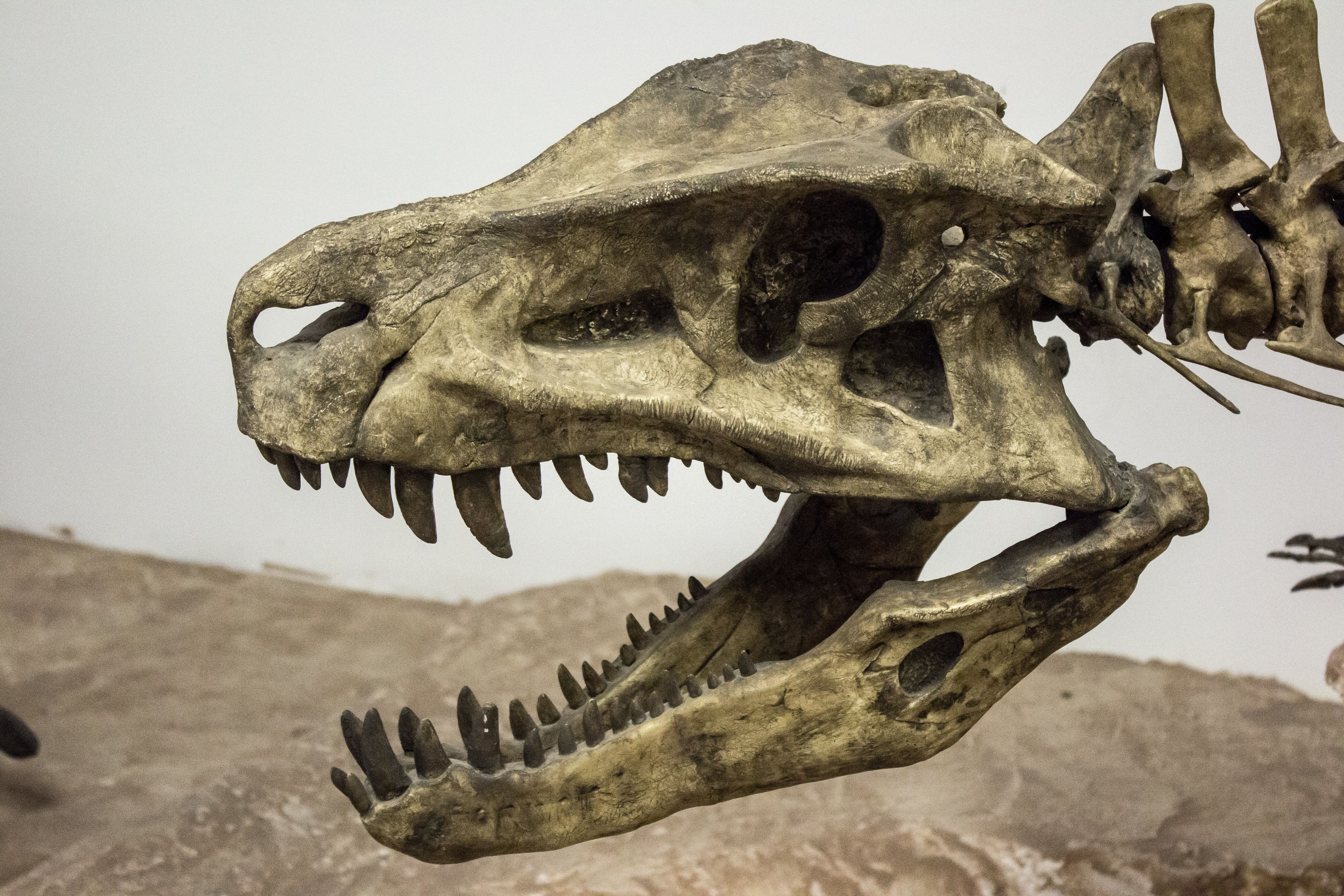 Inside the museum at Petrified Forest National Park. Arizona.